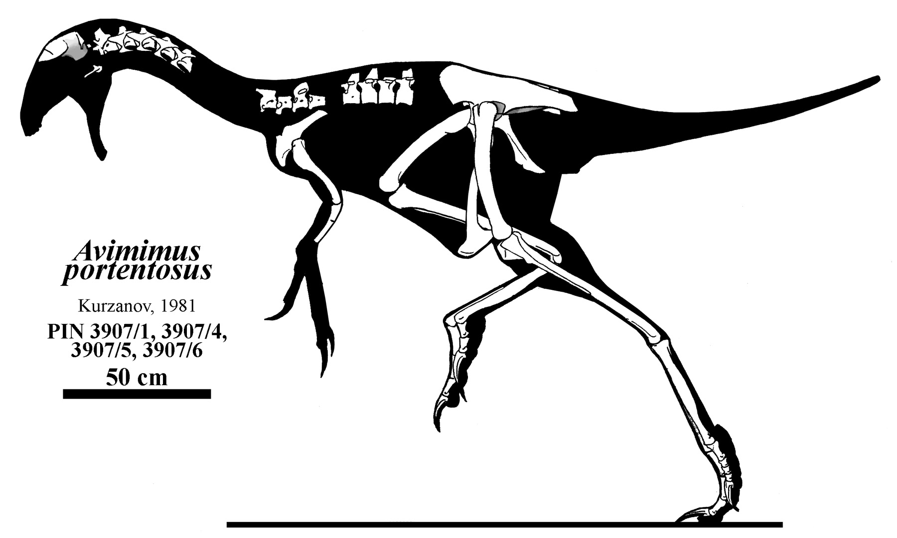 Skeletal reconstruction of Avimimus portentosus.